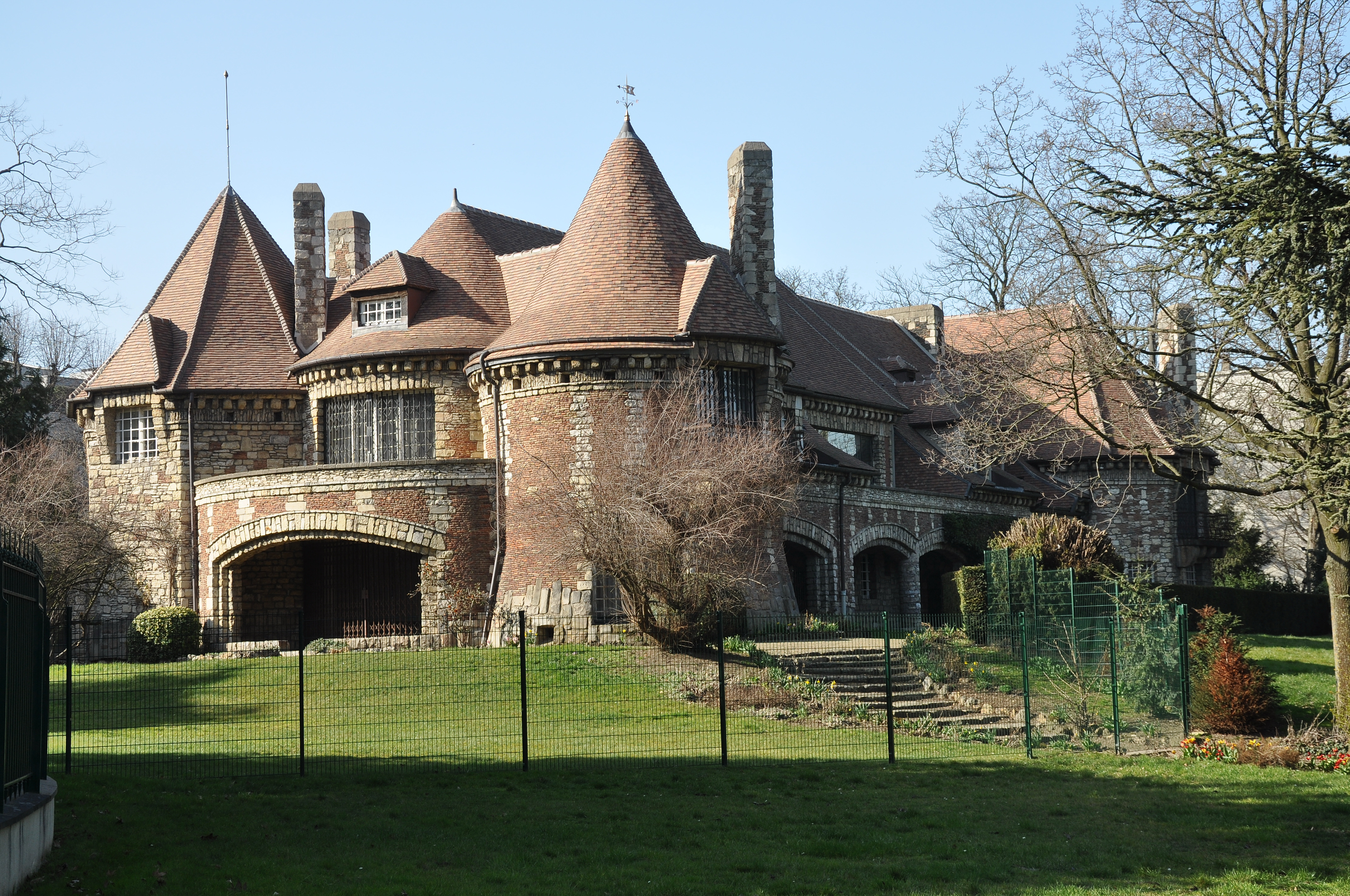 Manor of Tourneroches, the work of architect Jacquelin, located in Saint-Cloud, Hauts-de-Seine department, France.